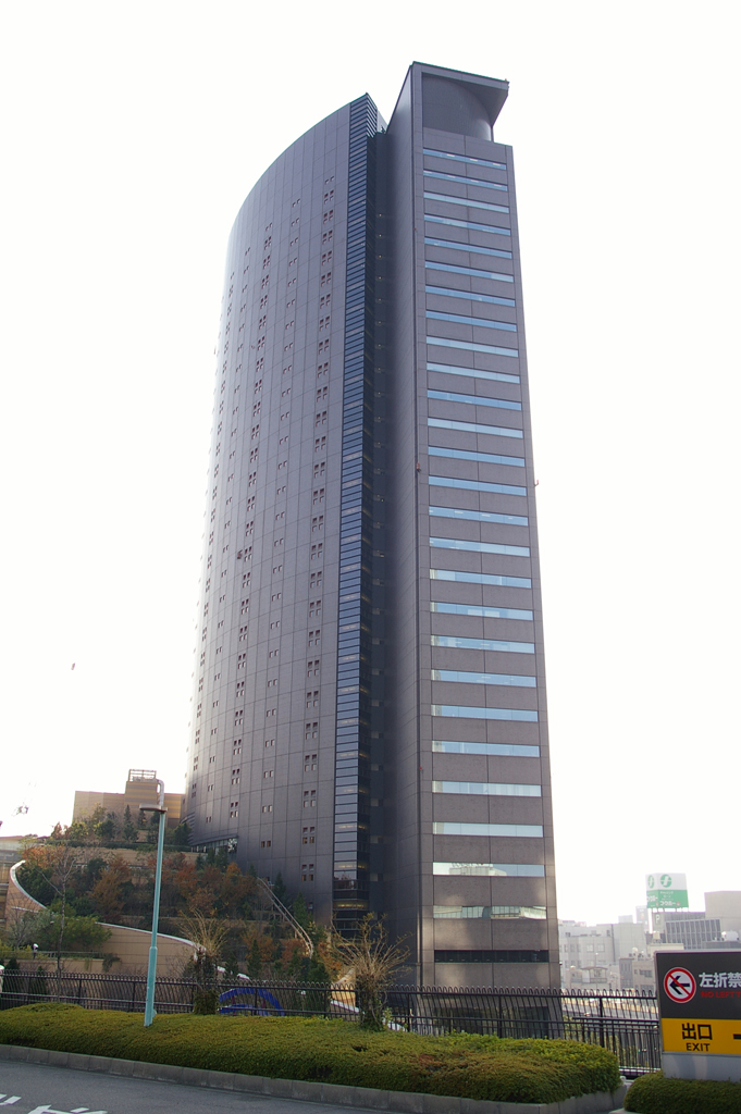 Photograph of Parks Tower in Namba Parks, Namba-Naka, Naniwa, Osaka, Osaka prefecture, Japan.